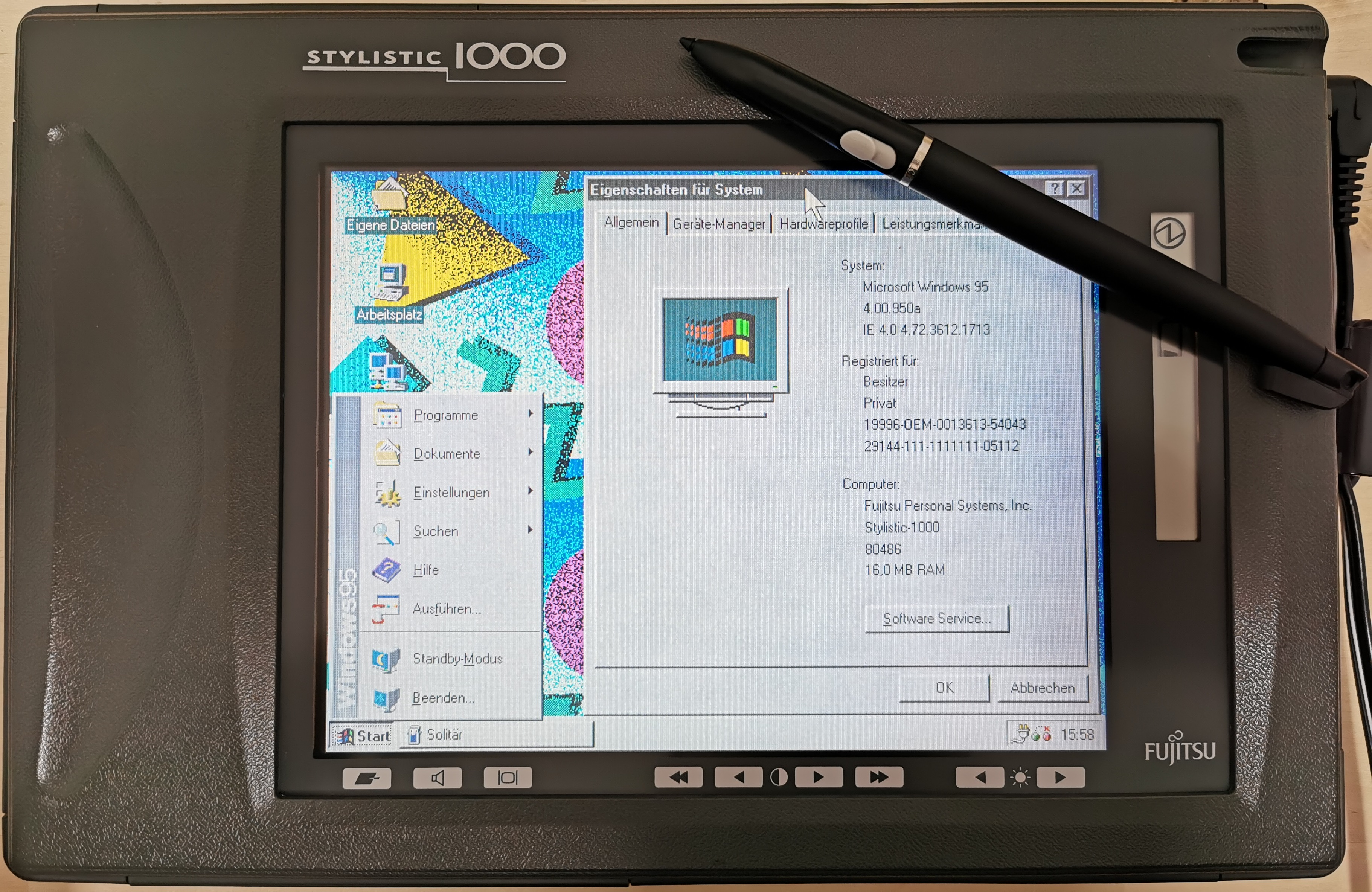 Fujitsu Stylistic 1000 Tablet PC